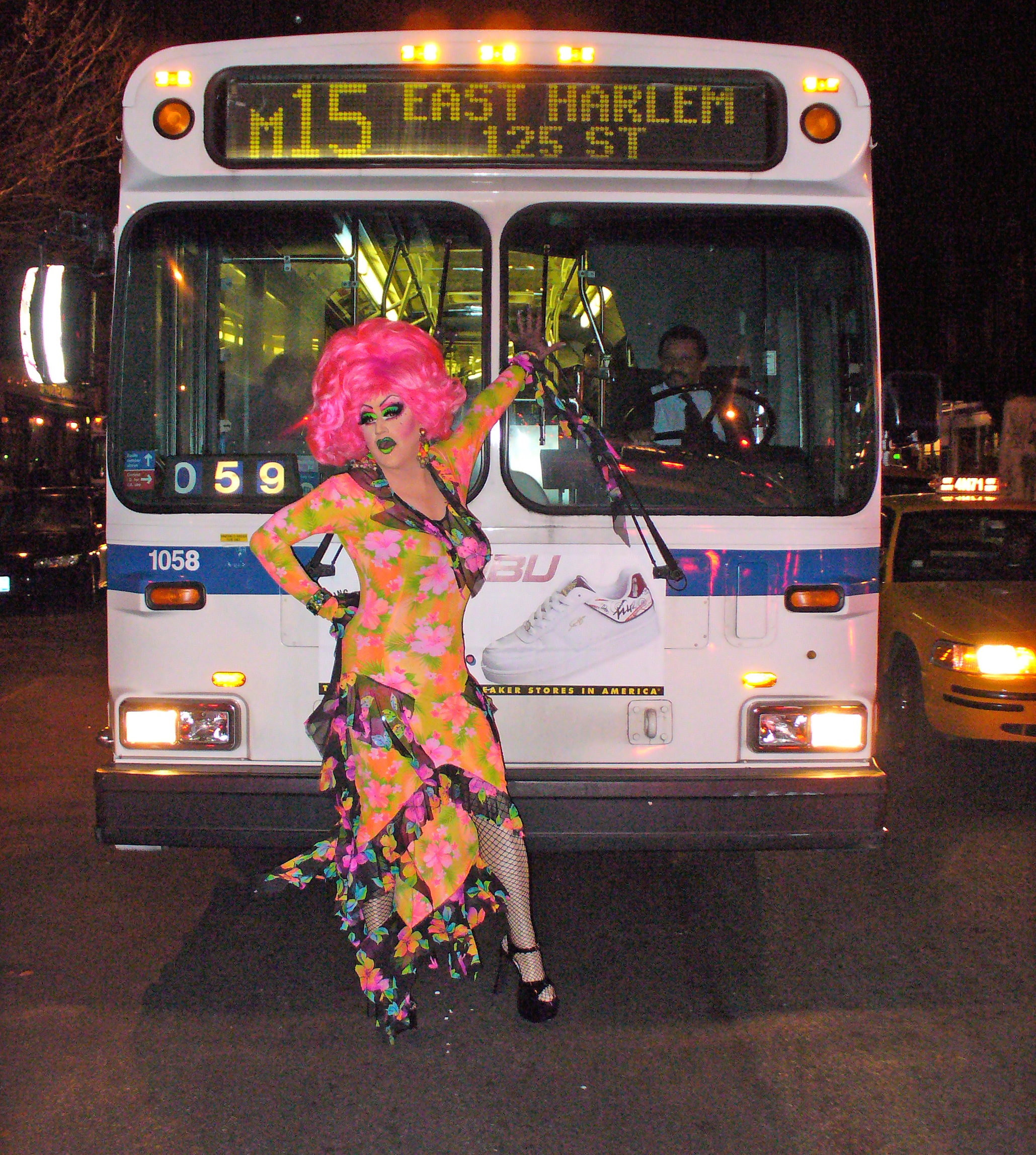 Miss Understood stopping a bus in the middle of First Avenue in New York City.